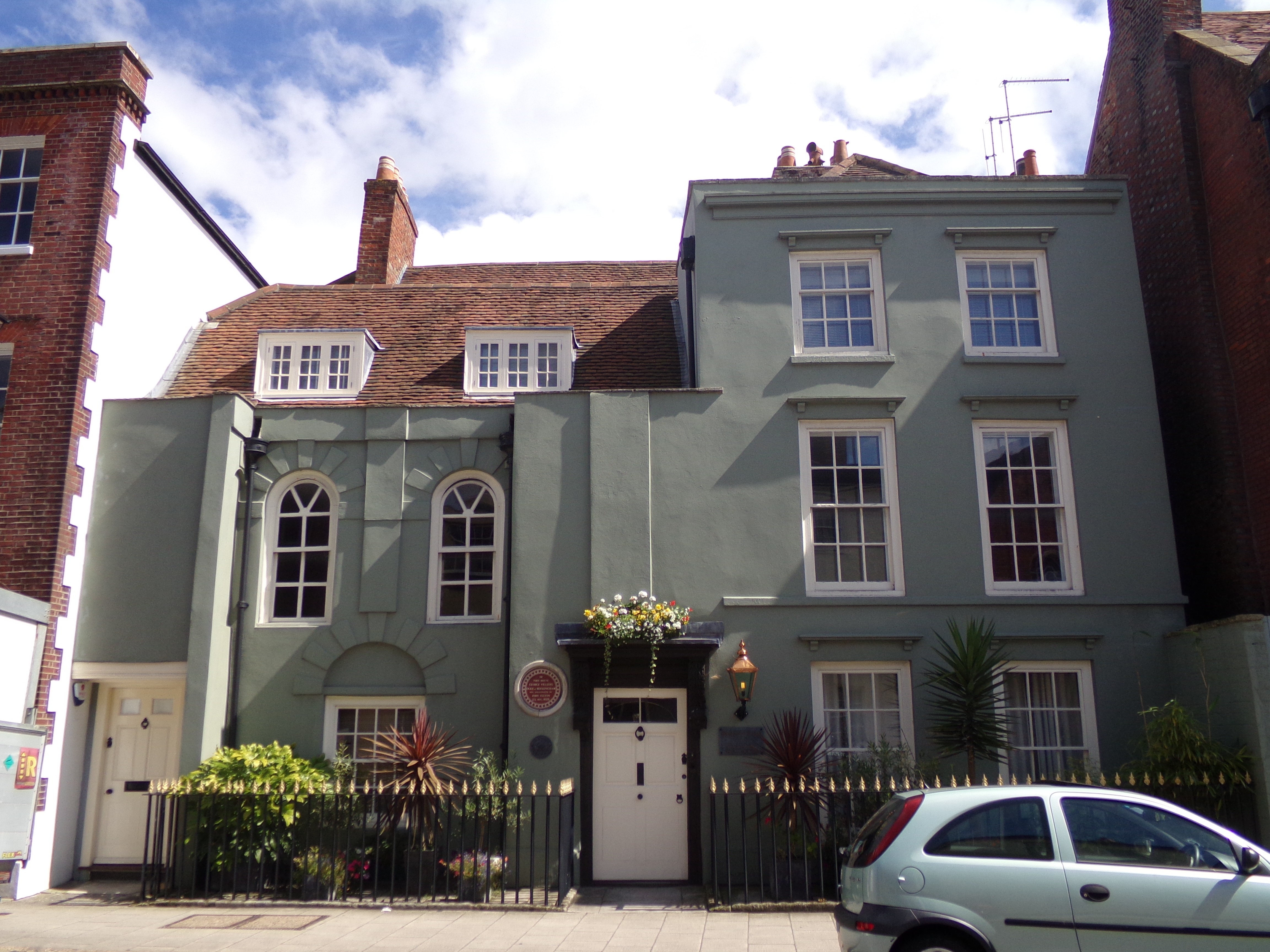 Buckingham House, formerly the Greyhound pub, in Old Portsmouth, Hampshire. George Villiers, 1st Duke of Buckingham was assassinated by John Felton in the house on 23 August 1628.